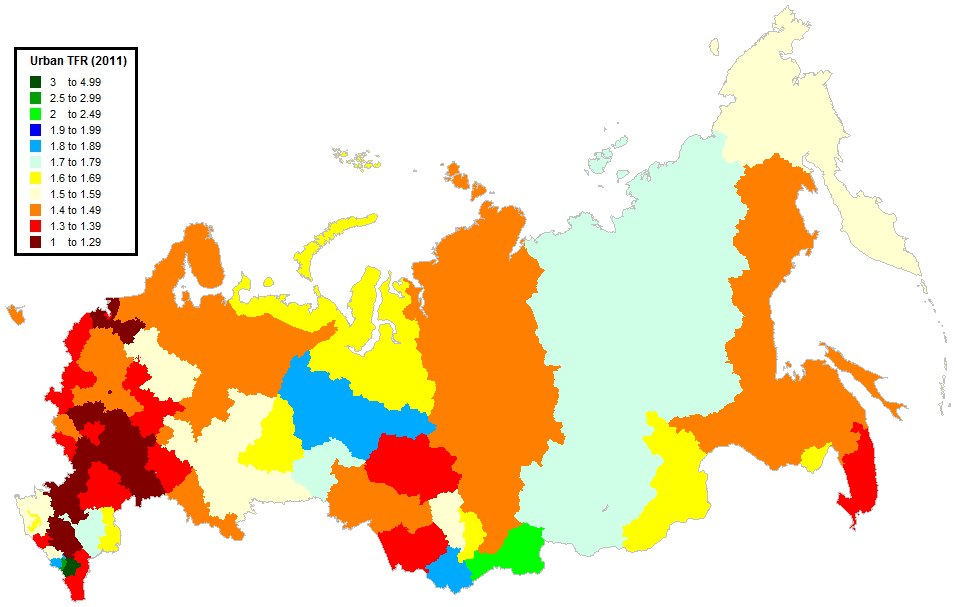 Urban TFR for Russian in 2011.